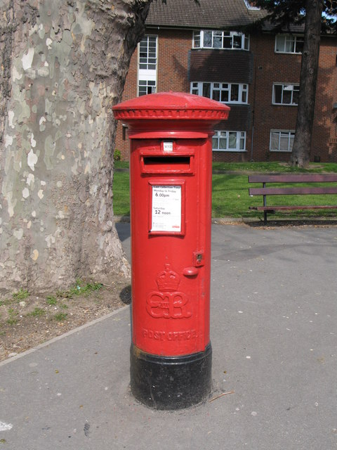 Edward VIII postbox, Brackley Road. The location of this postbox is shown in 776122.